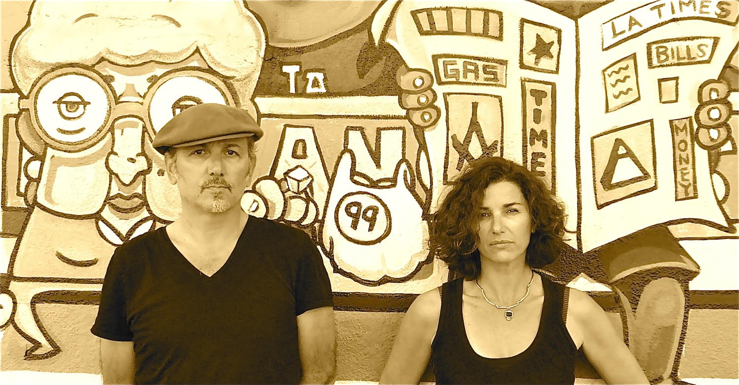 Photo of Aret Madilian and Beatrice Valantin, the band members of an French-American music group, "Deleyaman".